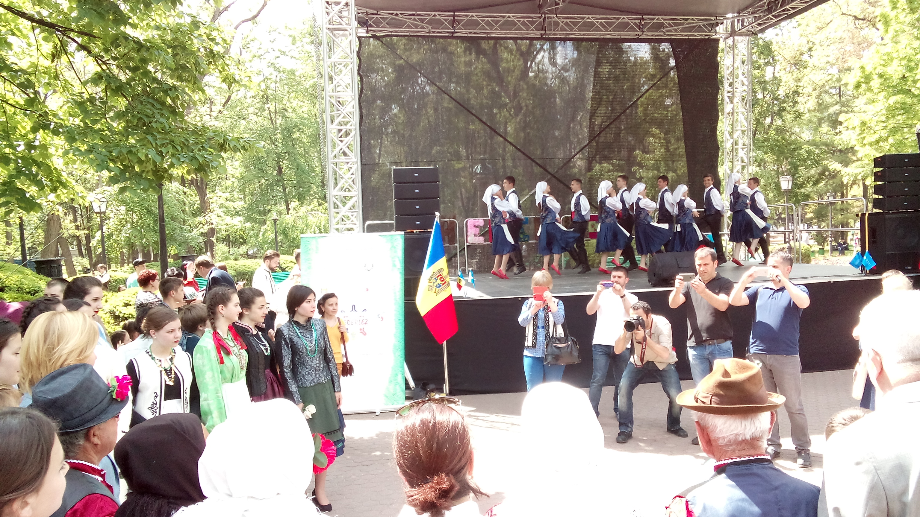 Gagauzi people of Moldova, celebrating Hederlez in the Ștefan cel Mare Central Park of Chișinău: dance